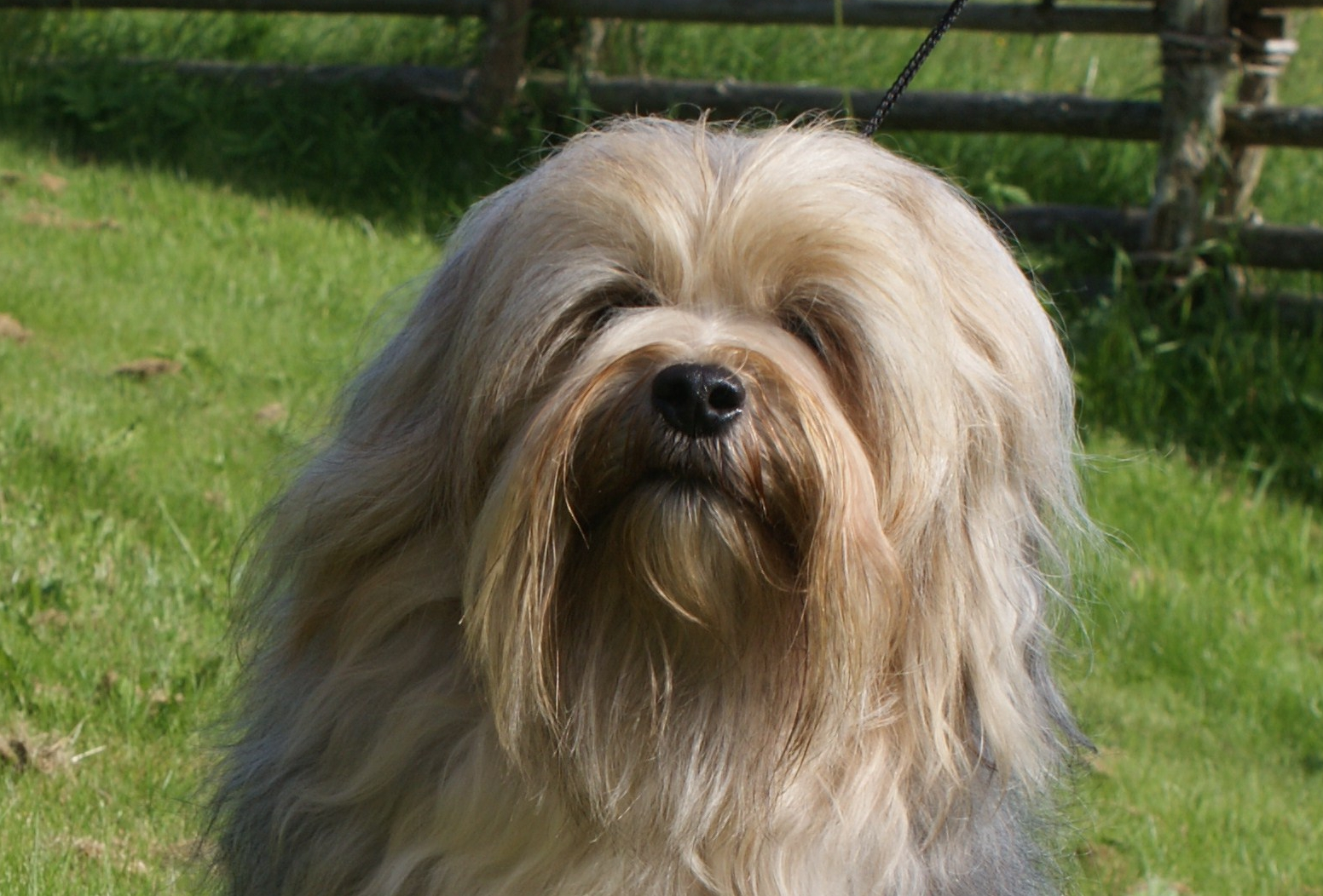 Lowchen